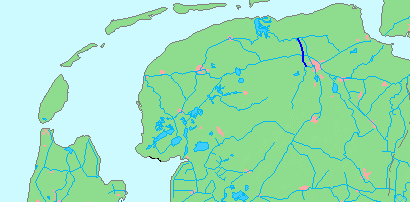 Location of a waterway (river/canal) in the Netherlends